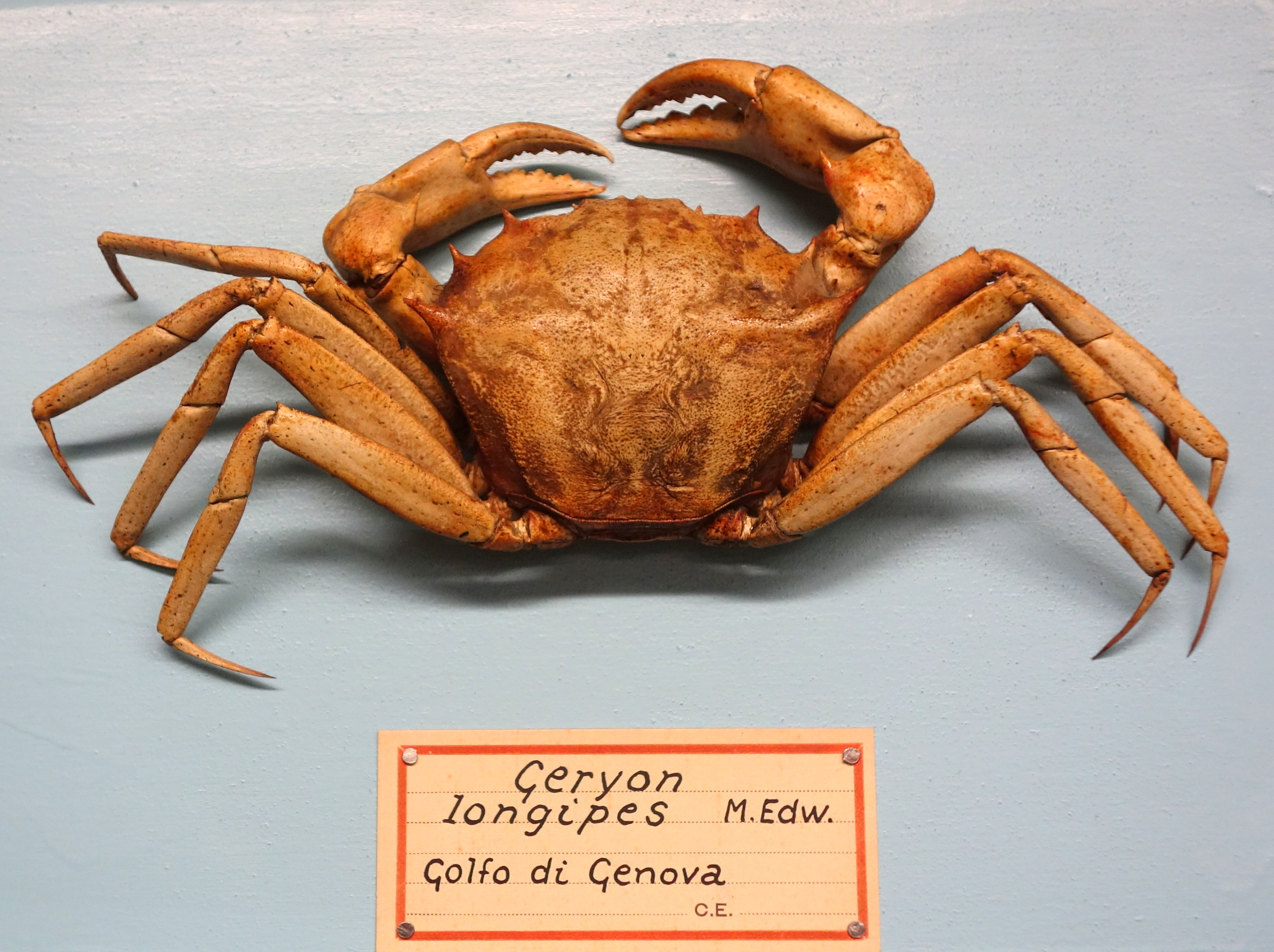 Exhibit in the Museo Civico di Storia Naturale di Genova, Via Brigata Liguria, 9, 16121, Genoa, Italy.